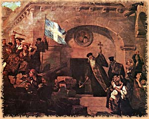 Arkadi Monastery 1866